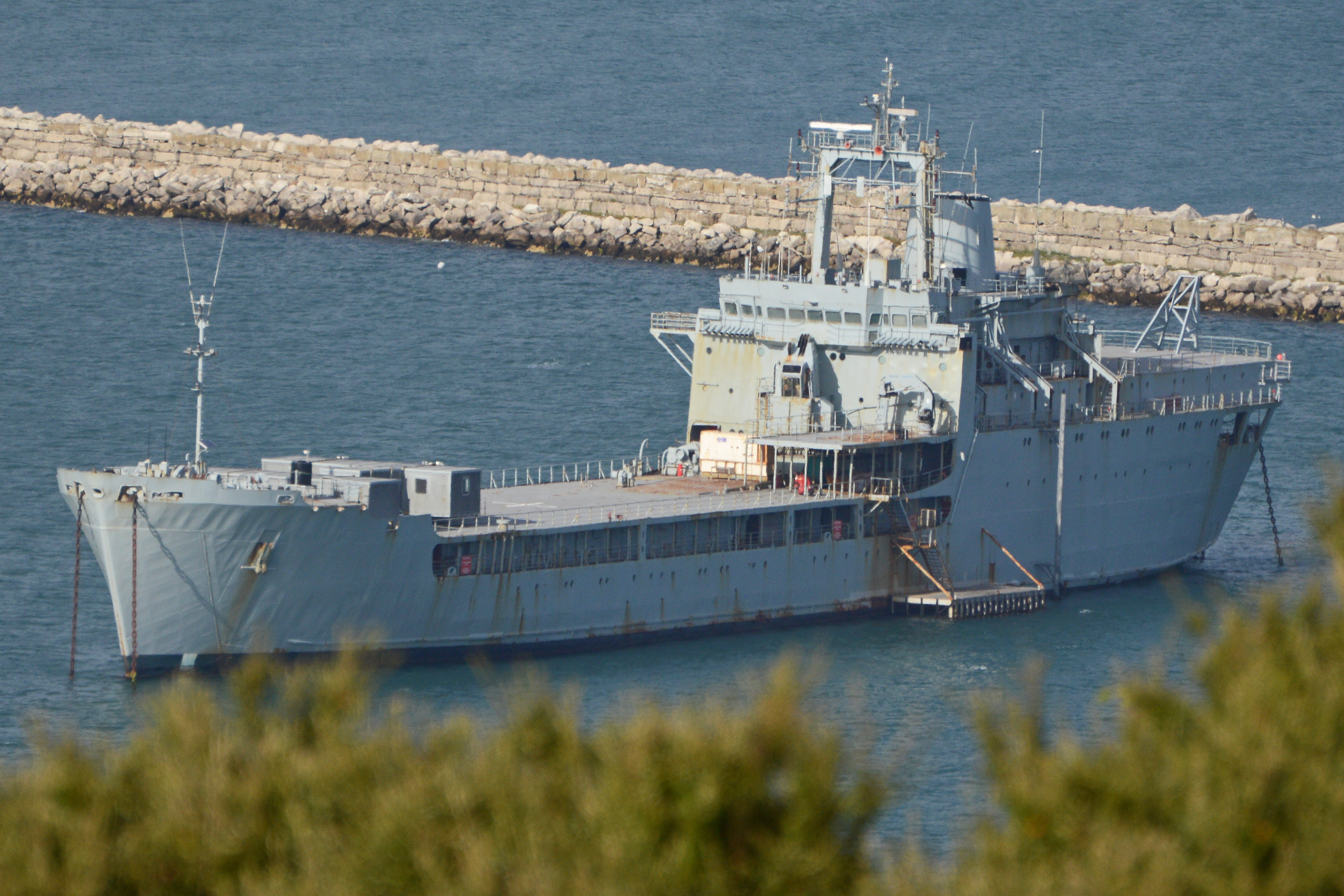 Round Table class landing ship previously in Royal Navy and Royal Fleet Auxiliary service. Built by Hawthorne Leslie in Tynbeside, she was launched in December 1966 and commissioned with the Royal Navy in September 1967, being transferred to the Royal Fleet Auxiliary in 1970. She is a landing ship logistics with a displacement of 6,407 tonnes, and a maximum speed of 16 knots. She saw initial action as part of an Anti-Invasion task force for British Honduras in 1972, but became a household name during the 1982 Falklands War when, along with RFA Sir Galahad, she was heavily damaged by Argentine Air Force A-4 Skyhawks at Fitzroy Cove and was abandoned. She was returned to the UK by a heavy-lift ship in 1984. Rebuilt, she returned to service in 1985 and later saw service in the Gulf War (1990), Balkans (1990s) and finally during the 2003 invasion of Iraq. She was decommissioned in December 2005 but is now a training ship for the Special Boat Service (SBS) and UK Special Forces Group. She is seen at her permanent home in Portland, Dorset, UK. 29-7-2016